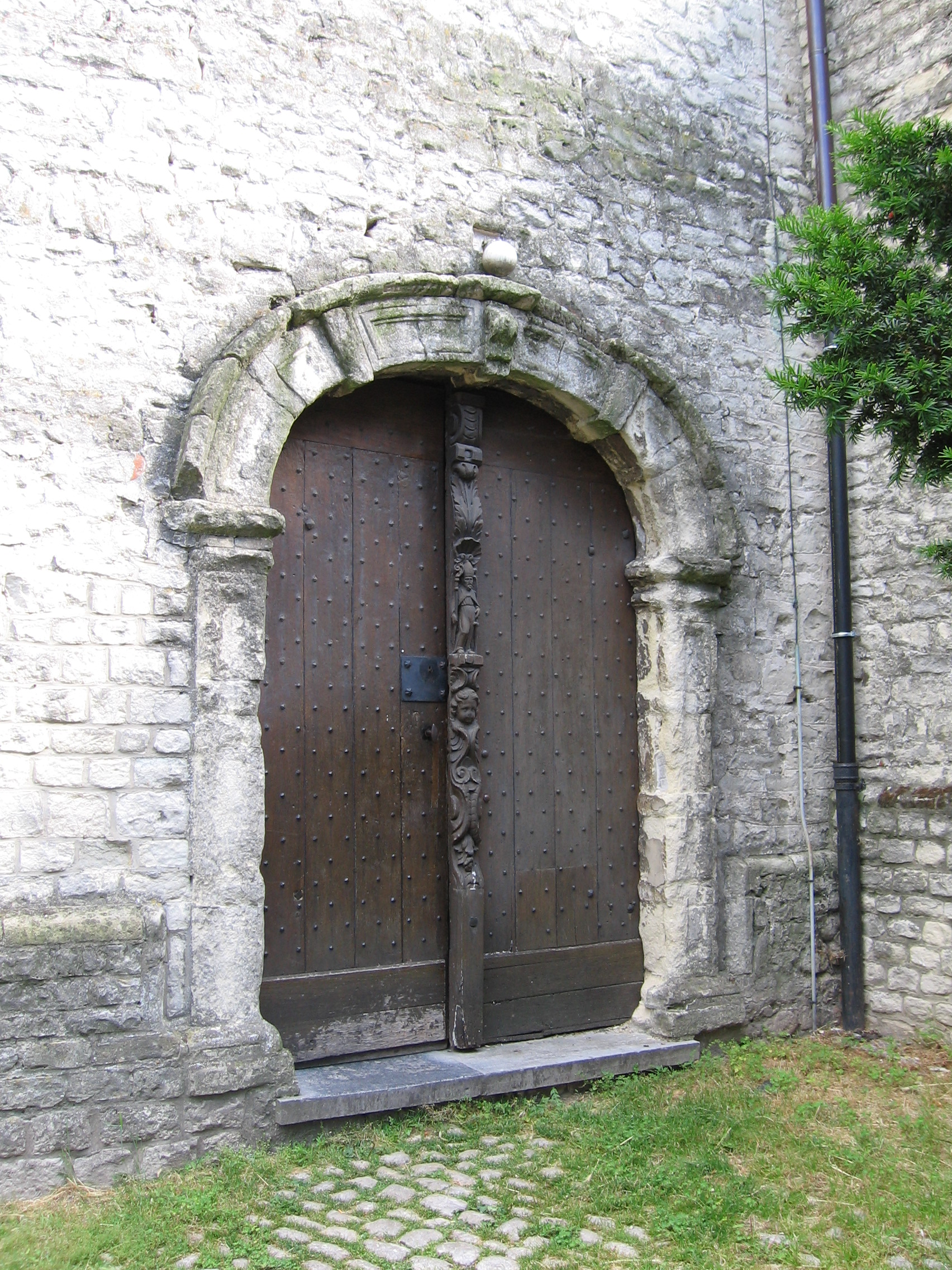 The door leading into the Roman style steeple of Saint-Lambert's Church (Woluwe-Saint-Lambert).